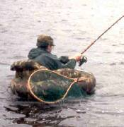 Pike Angler Seated in a Float Tube.